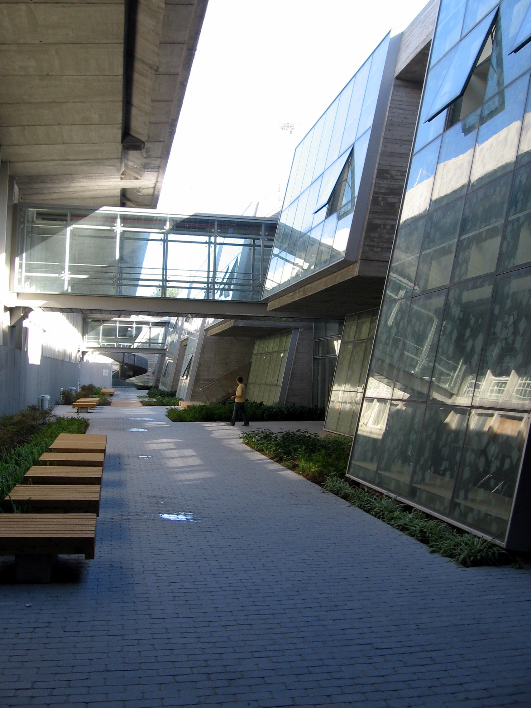 New section of University of Haifa library